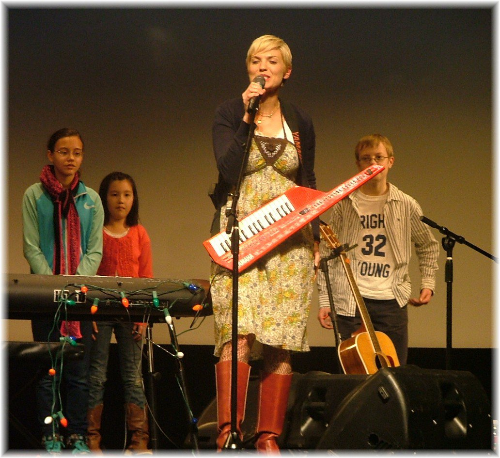 Mindy perfoming in Portland